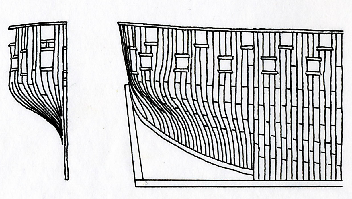 Diagram of a circular stern of a sailing ship as designed by Sir Richard Seppings.